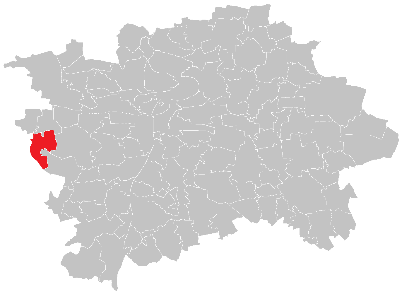 Location map of Prague cadastral area Třebonice